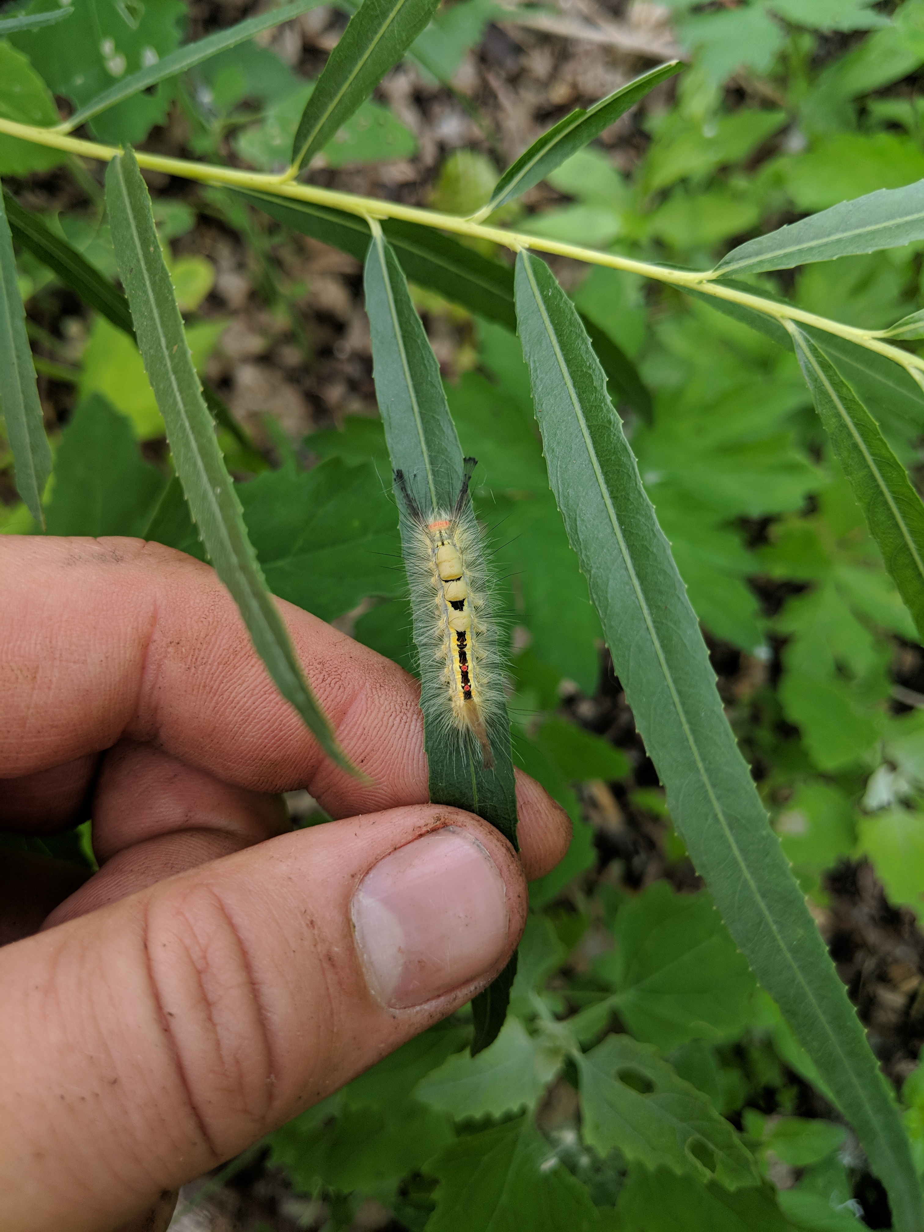 White-Marked Tussock Moth on a willow tree in Iowa